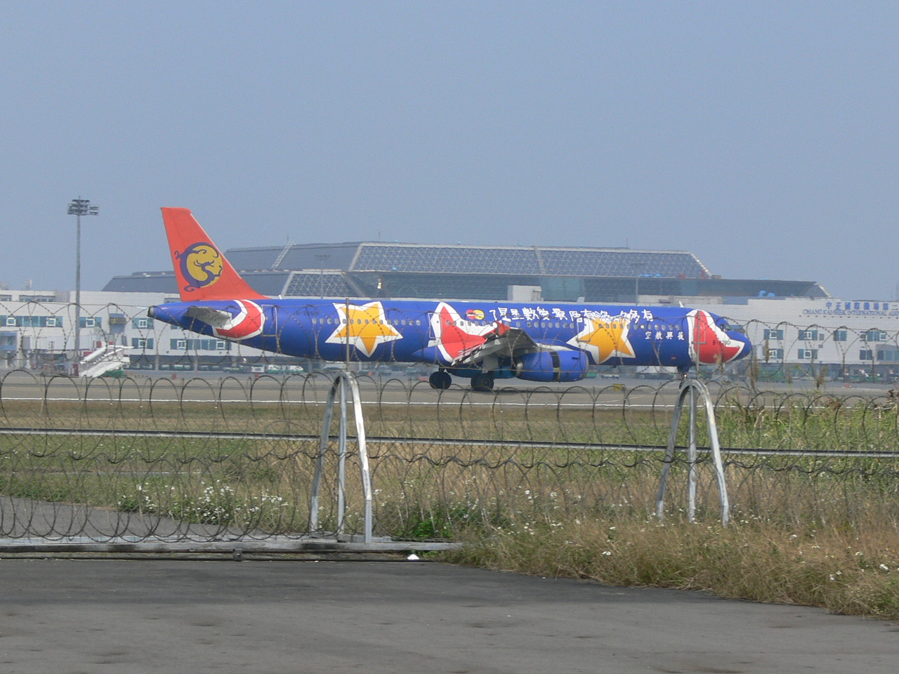 Transasia Airways Airbus A321-100 Reg.No. B-22601. Photo at C.K.S. Intl Airport Taiwan.